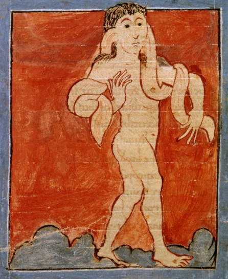 British Library, Cod. Cotton Tiberius B V, 83v. (circa 1040)